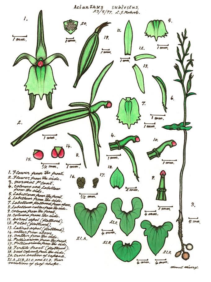 This image is one of a series by Lewis Roberts